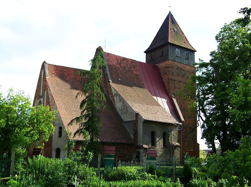 Church in Jędrzychowice (Wschowa county)